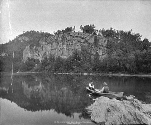 Hanging Rocks viewed from across the river in the 1890s. This picture was taken by William Henry Jackson and now belongs to the Library of Congress.